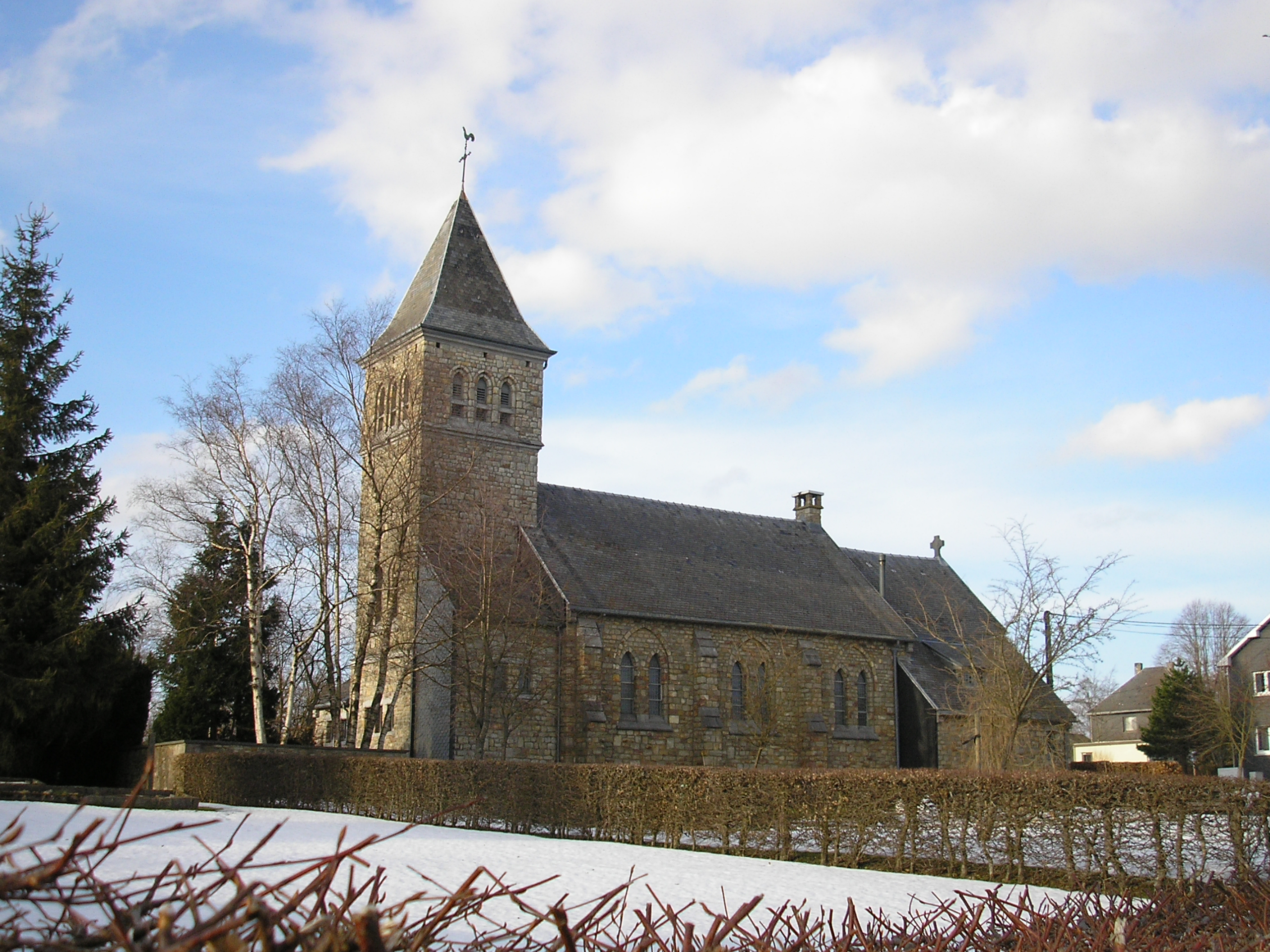 Church of Saint Remaclus in Ovifat. Ovifat, Robertville, Waimes, Liège, Belgium